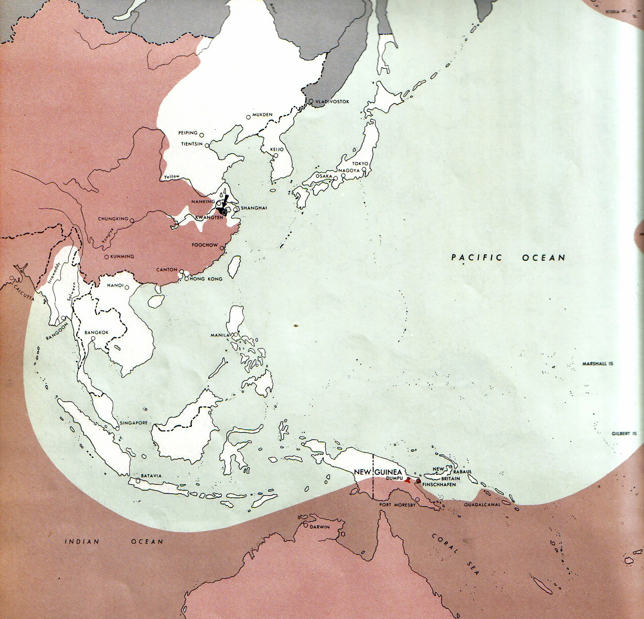 Map of the front against Japan as of 15 Oct 1943: This map is taken from the source "Atlas of the World Battle Fronts in Semimonthly Phases to August 15th 1945: Supplement to The Biennial report of The Chief of Staff of the United States Army July 1, 1943 to June 30 1945 To the Secretary of War". (See Cover, Forward and Map details)